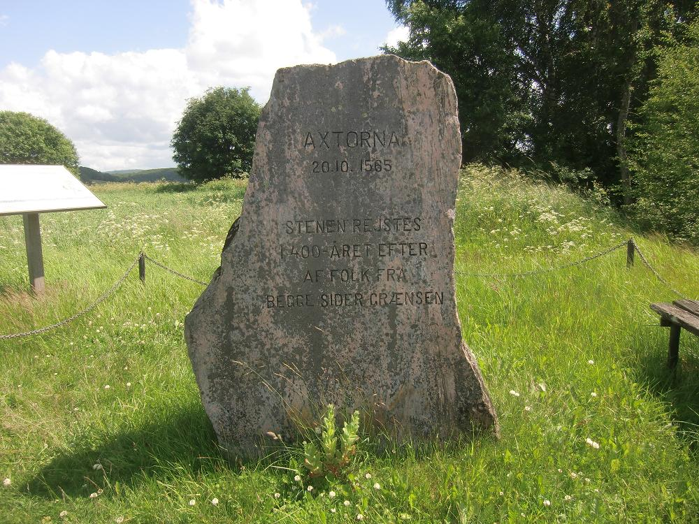 Monument over the battle of Axtorna, erected 1965